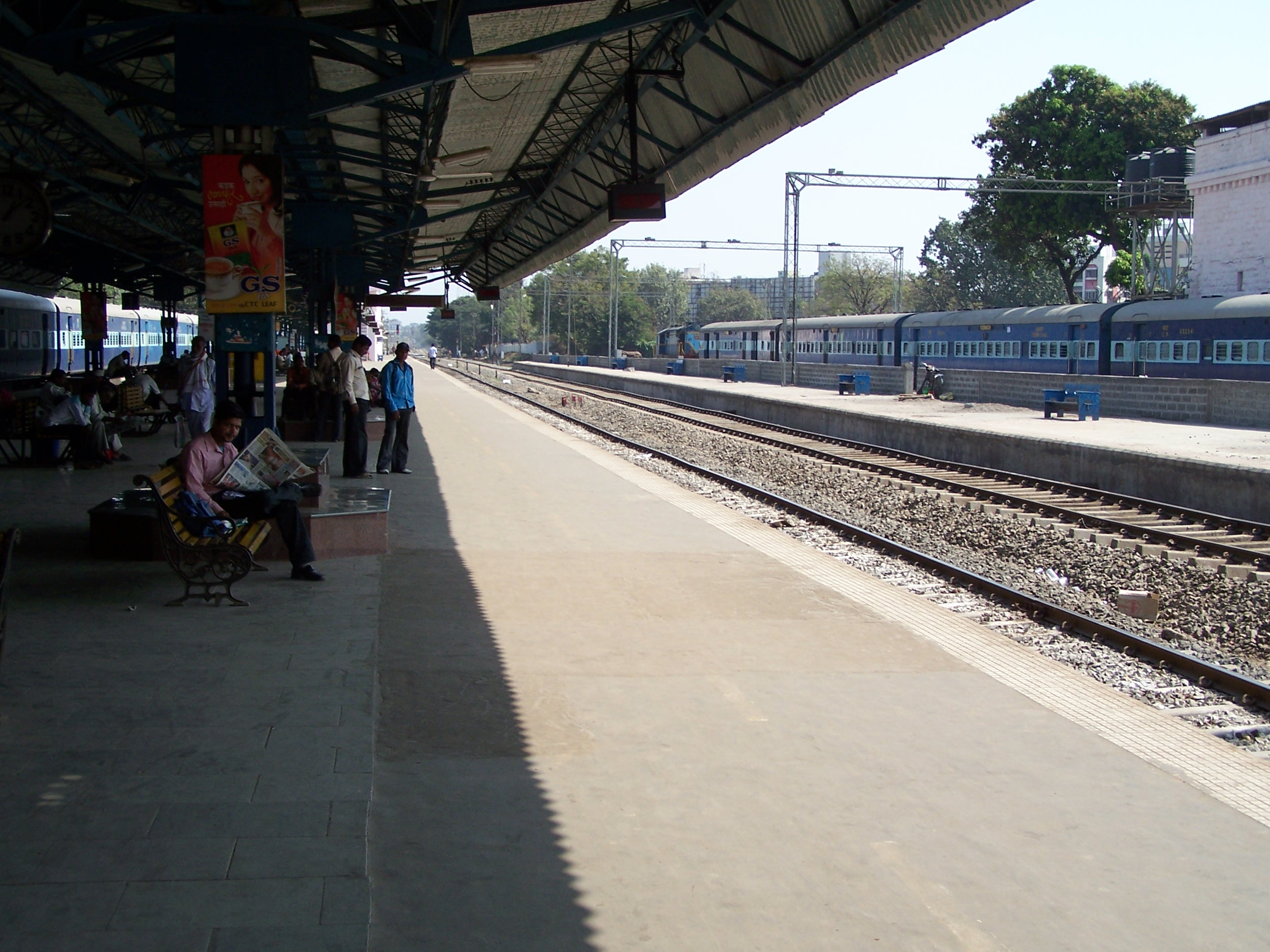 Kolhapur (Chattrapati Shahu terminus) station